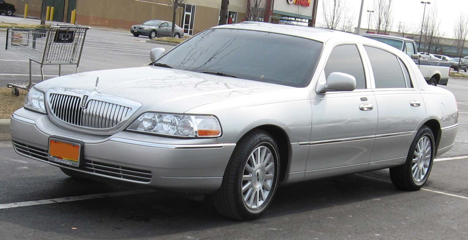 2003-2007 Lincoln Town Car photographed in USA.